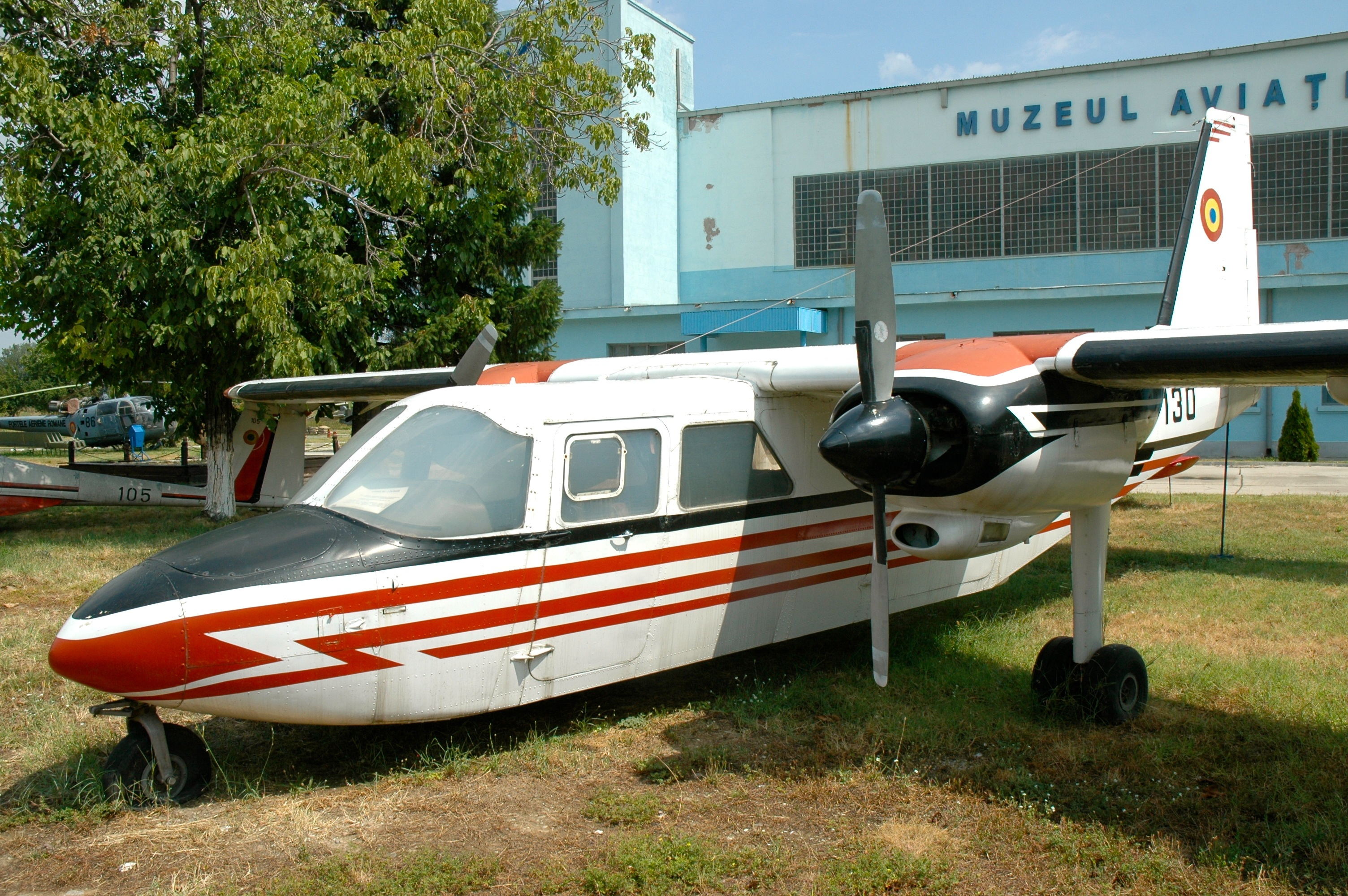 Romanian built BN-2 Islander light utility aircraft, displayed at the National Museum of Romanian Aviation in Bucharest